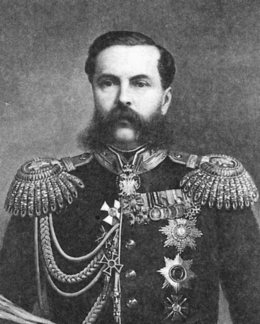 Nikolay Adlerberg.